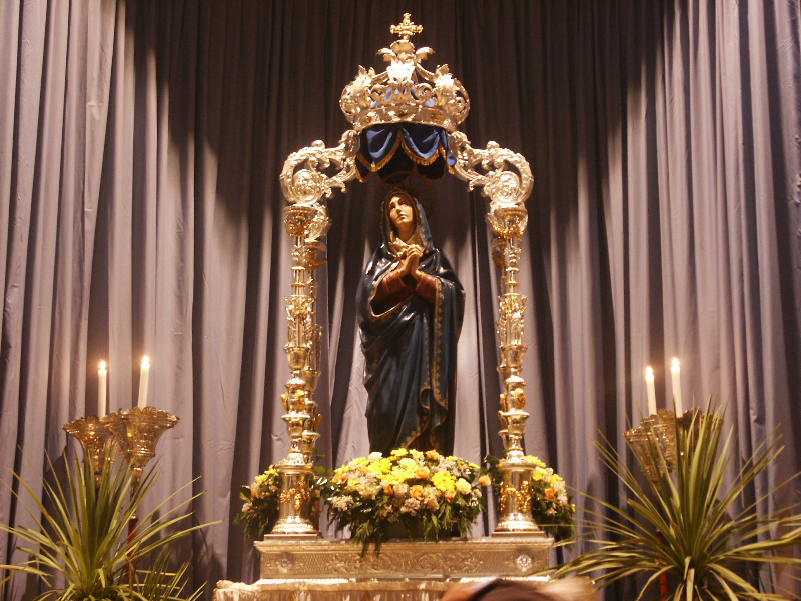 Church of St. Vito, Lomazzo